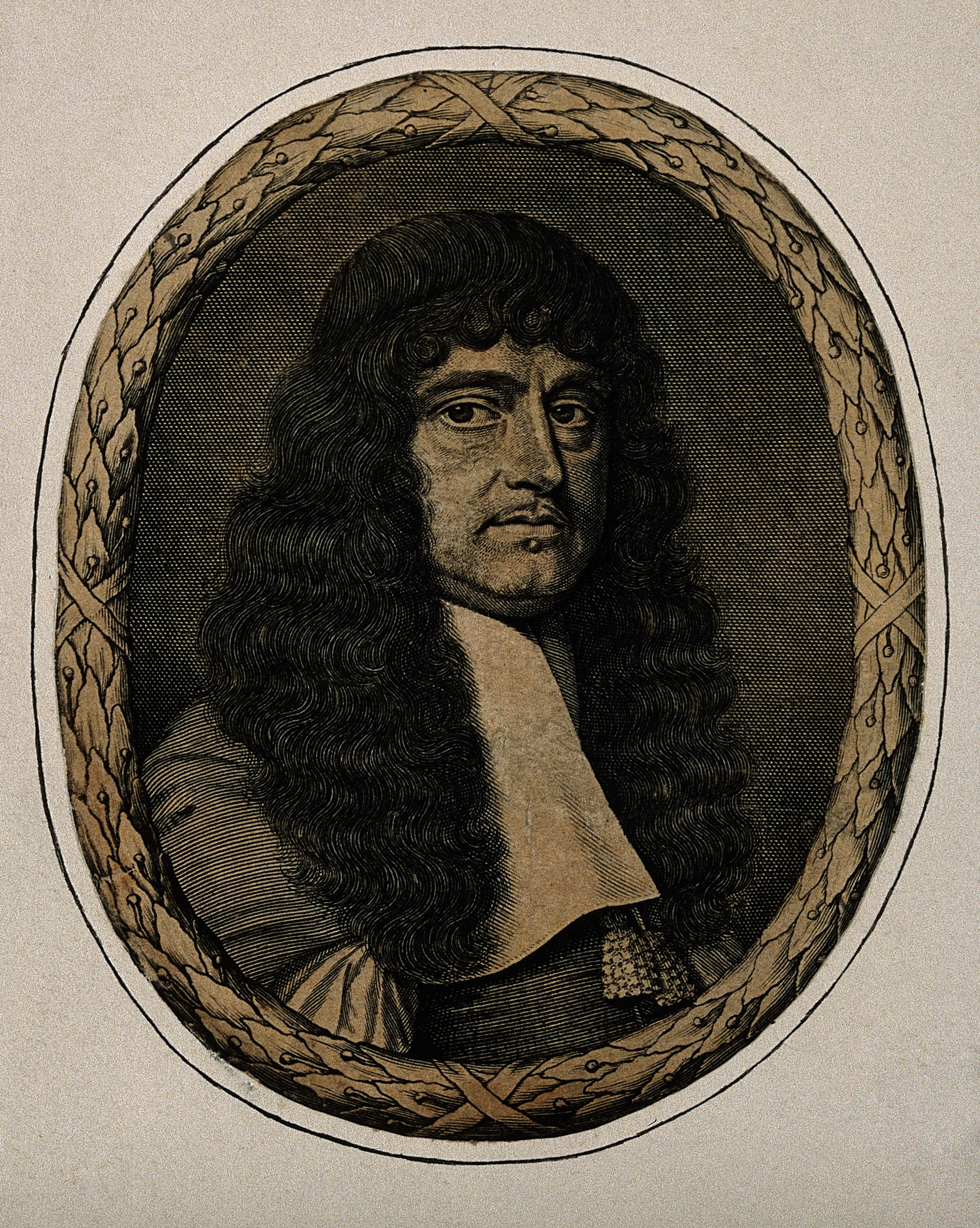 Sir George Wharton. Line engraving by D. Loggan, 1661, after himself. Iconographic Collections Keywords: portrait prints; engravings; George Wharton